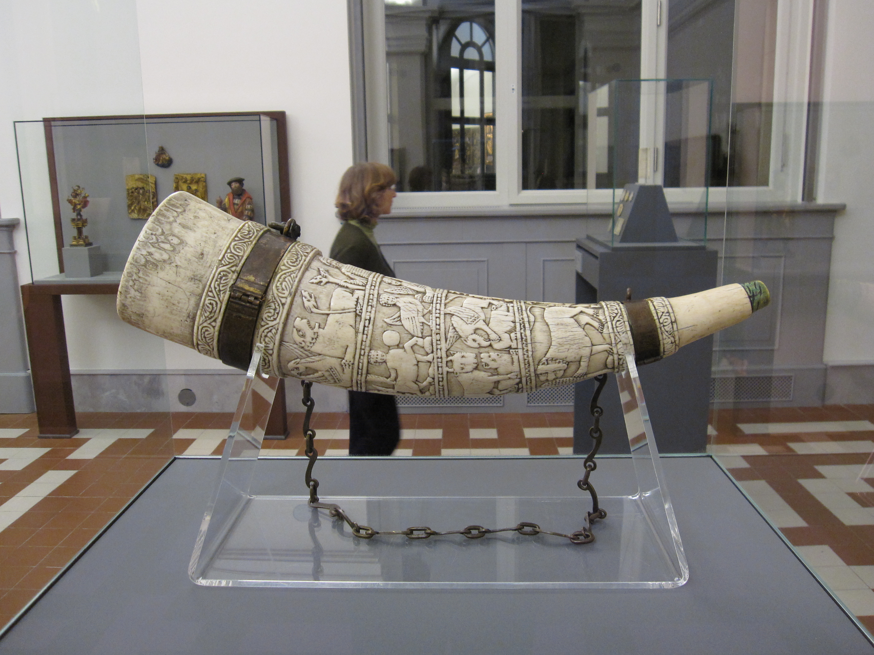 Olifant (Ivory horn for signalling